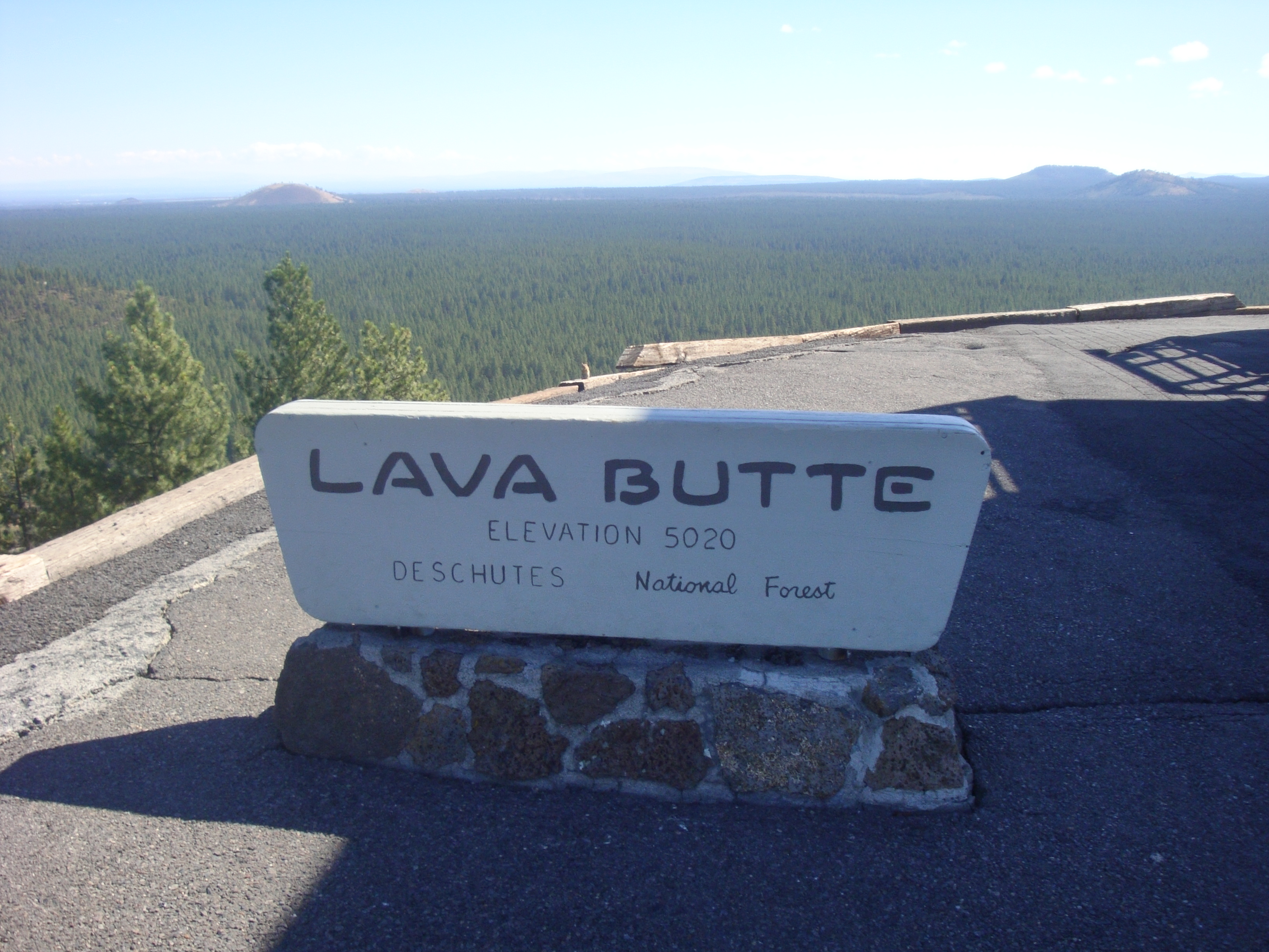 Sign at Lava Butte, central Oregon.